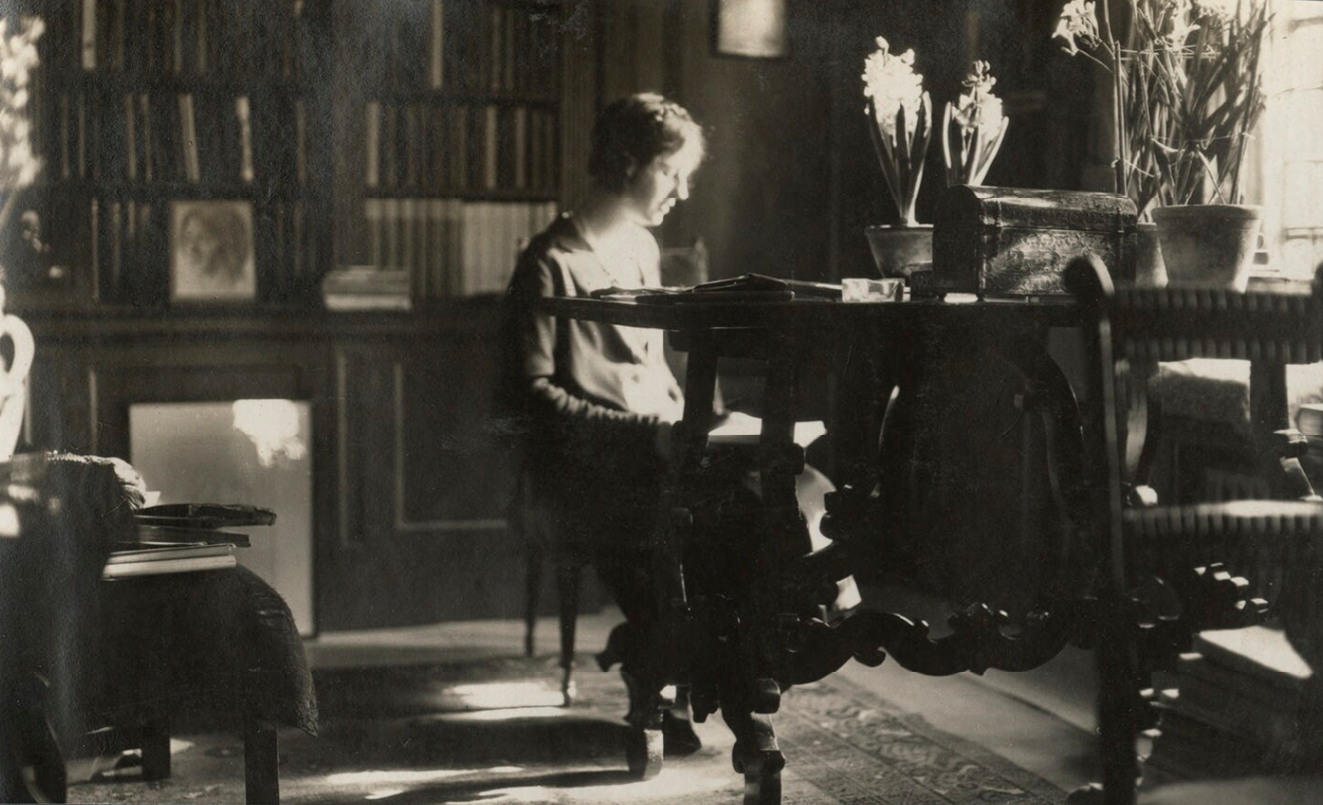 Portrait of Noël Moon, married name Oakeshott (1904–1976), British classical archaeologist.